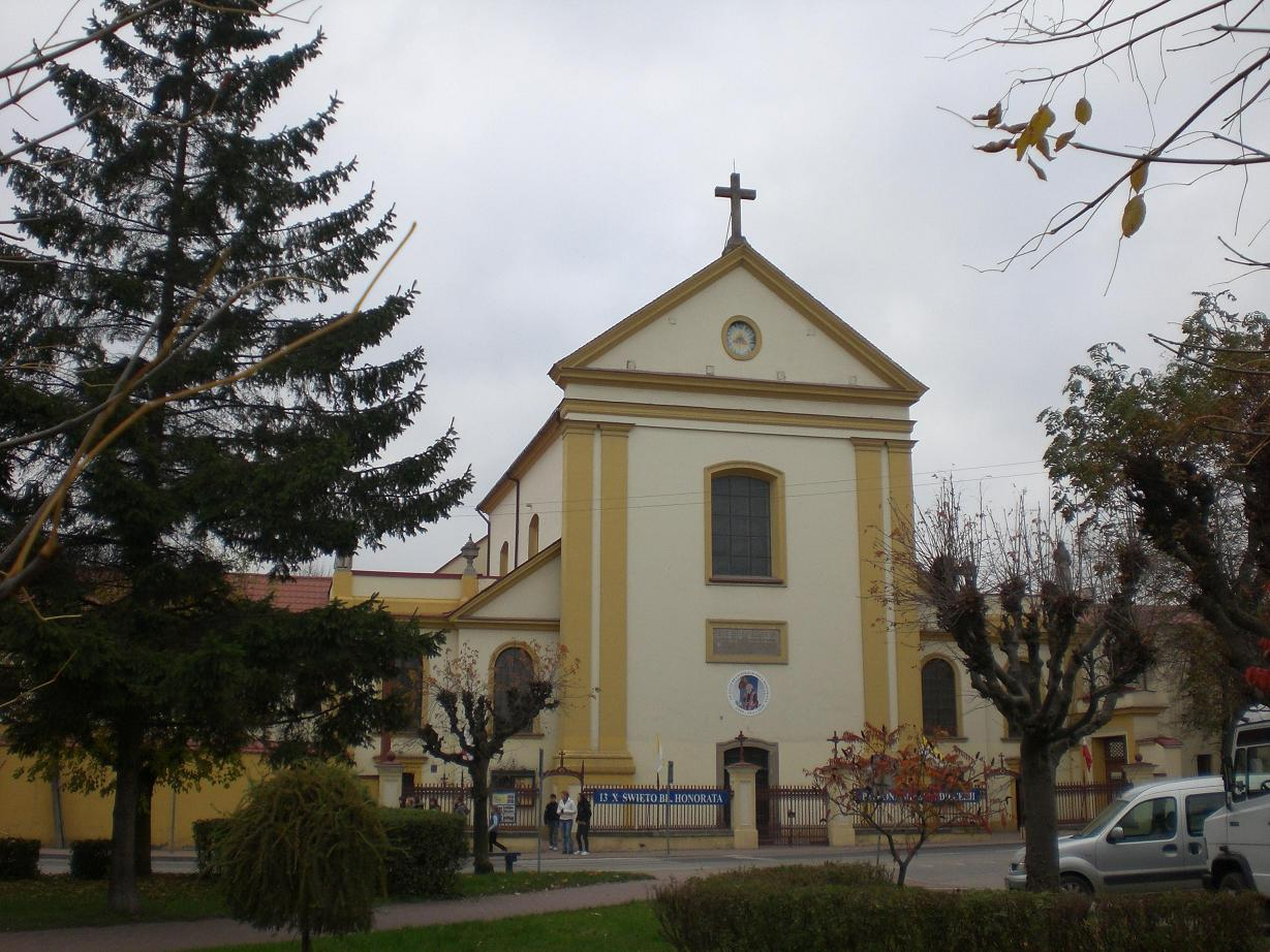 Monastery in Nowe Miasto nad Pilicą